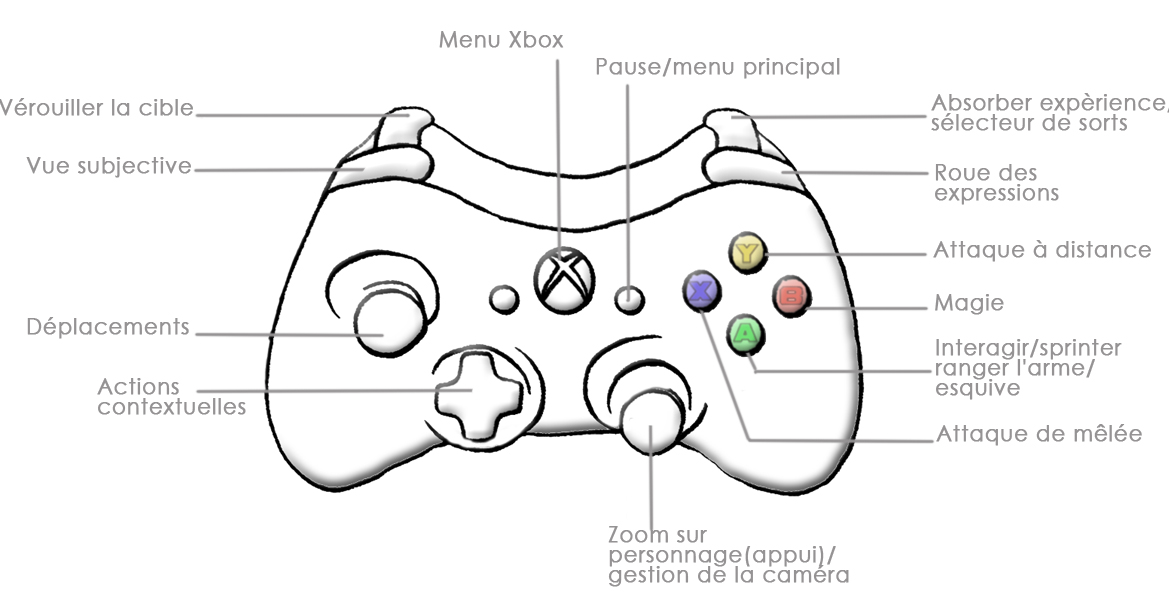 Diagram of the Xbox controller with the buttons used to play Fable II, with annotations.